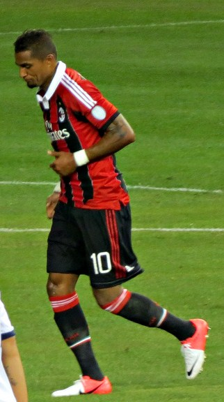 Kevin-Prince Boateng playing for A.C. Milan